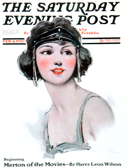 Saturday Evening Post cover 2-4-1922 by Ellen Bernard Thompson Pyle of Wilmington, Delaware. One of 40 SEP covers she made. Title "Flapper"